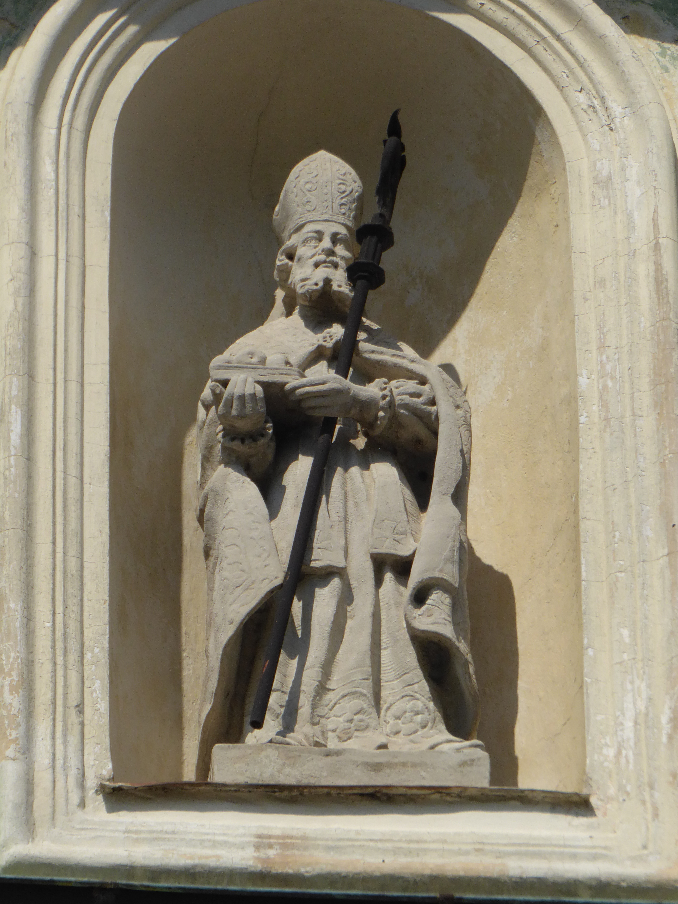 Chizzola (Ala, Trentino, Italy), Saint Nicholas church - Statue of saint Nicholas